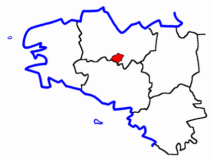 Description: Map for localisazion of cantons of Bretagne region in France Source: made by Hervé Tigier in april 2005 from another large map (published in 1990)